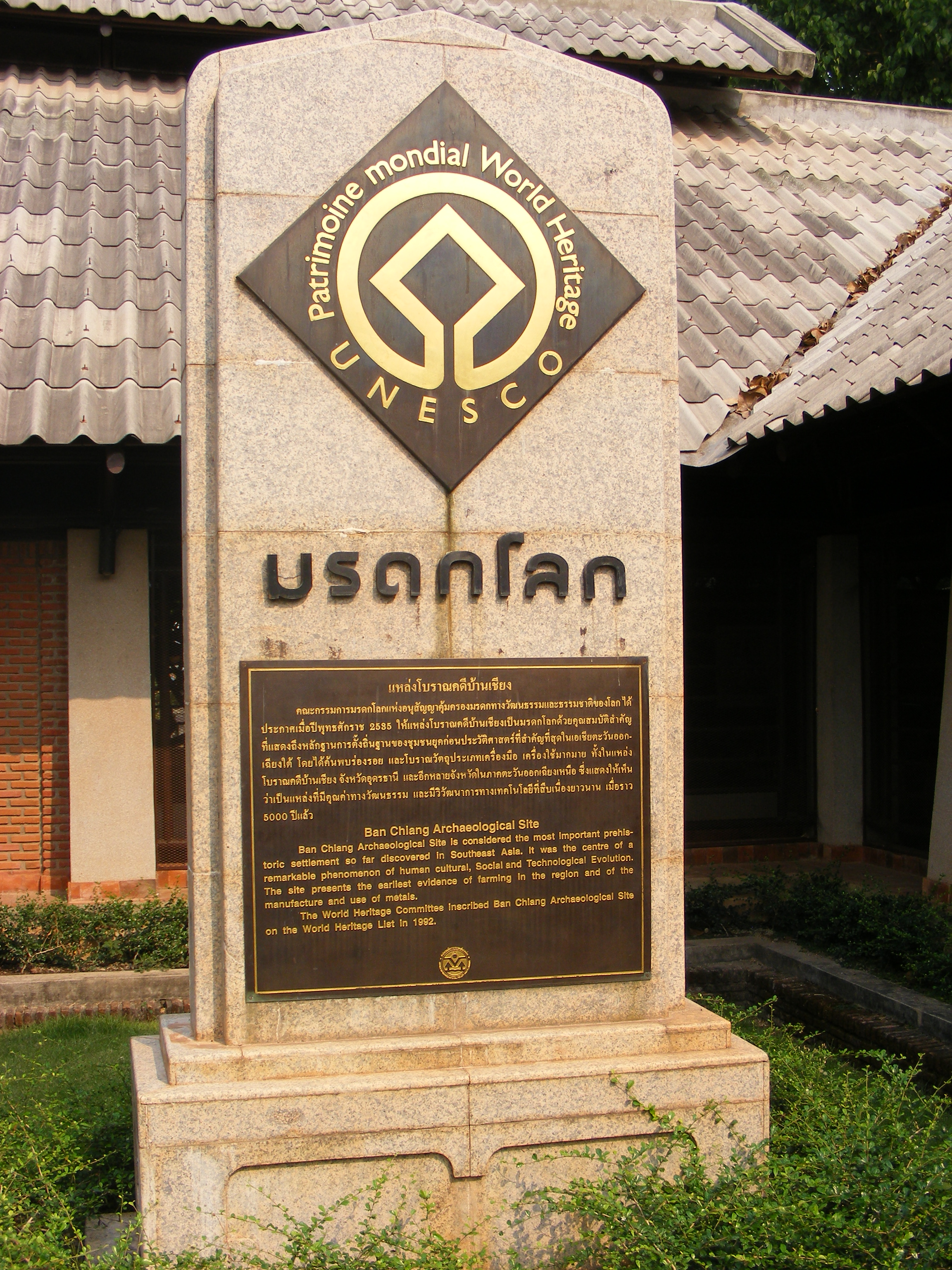 Wat Pho Si Nai (part of the Ban Chiang Archaeological site, Thailand) - UNESCO World Heritage Site plaque.